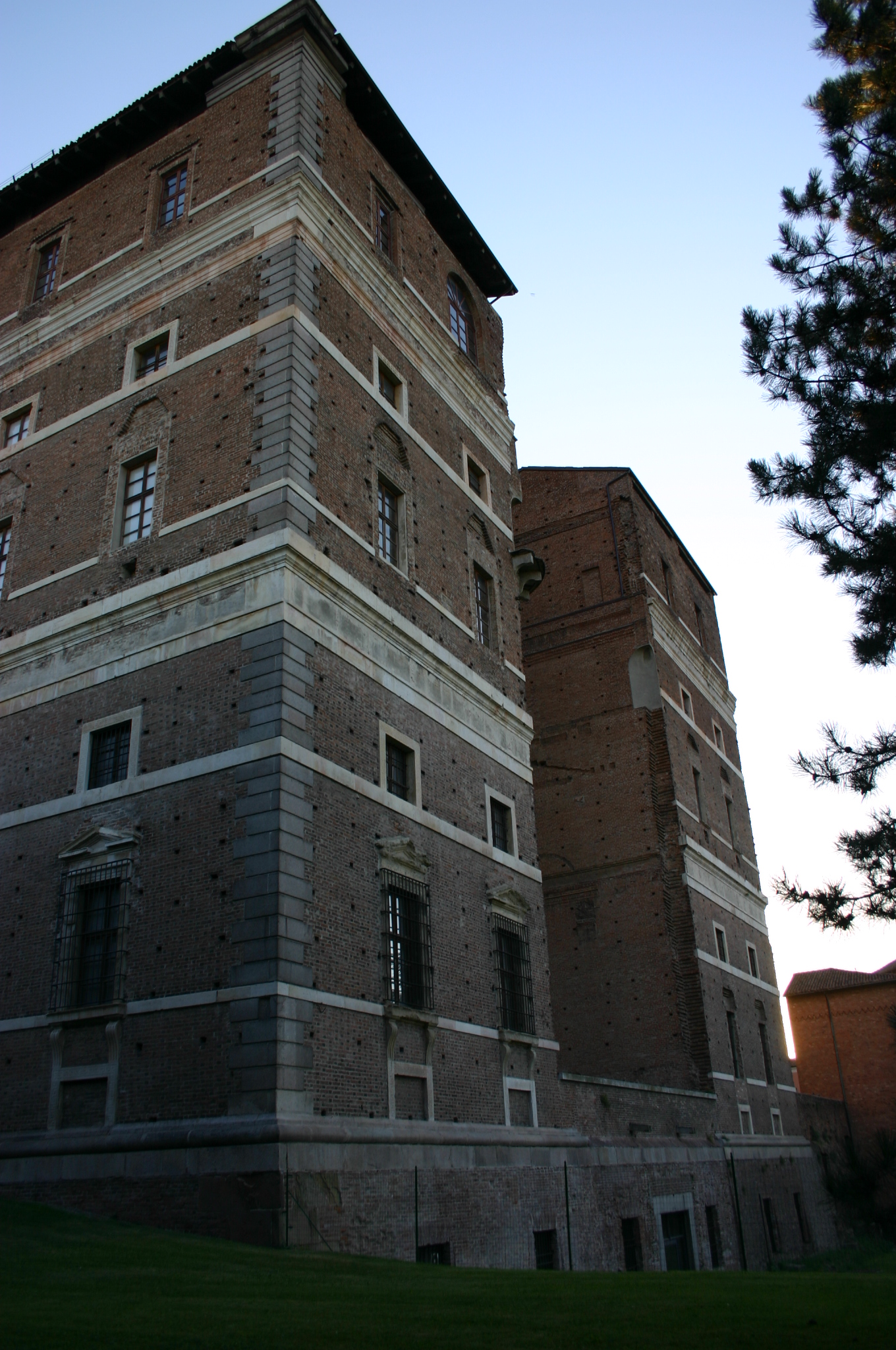 The facade, never completed, of Palazzo Farnese palace in Piacenza, Italy. Picture by Giovanni Dall'Orto, July 14 2007.